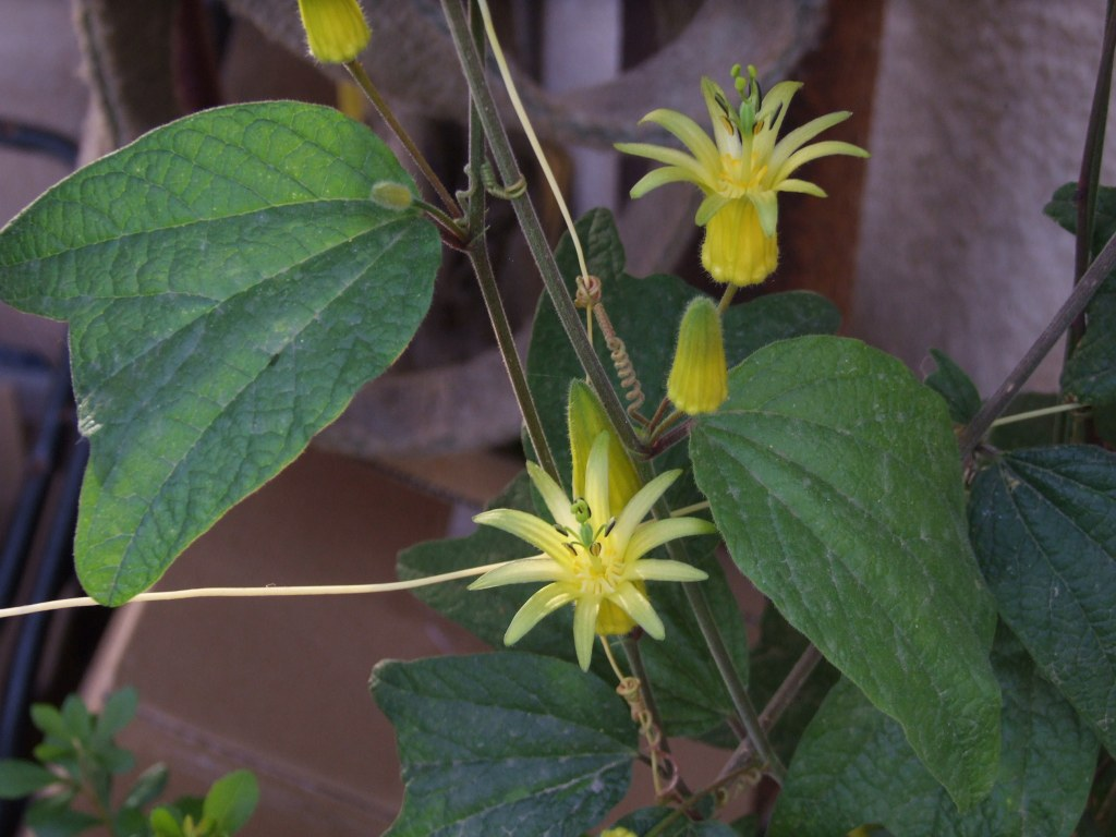 Passiflora citrina